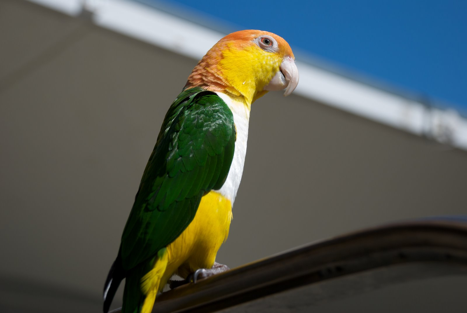 A pet White-bellied Parrot in USA.